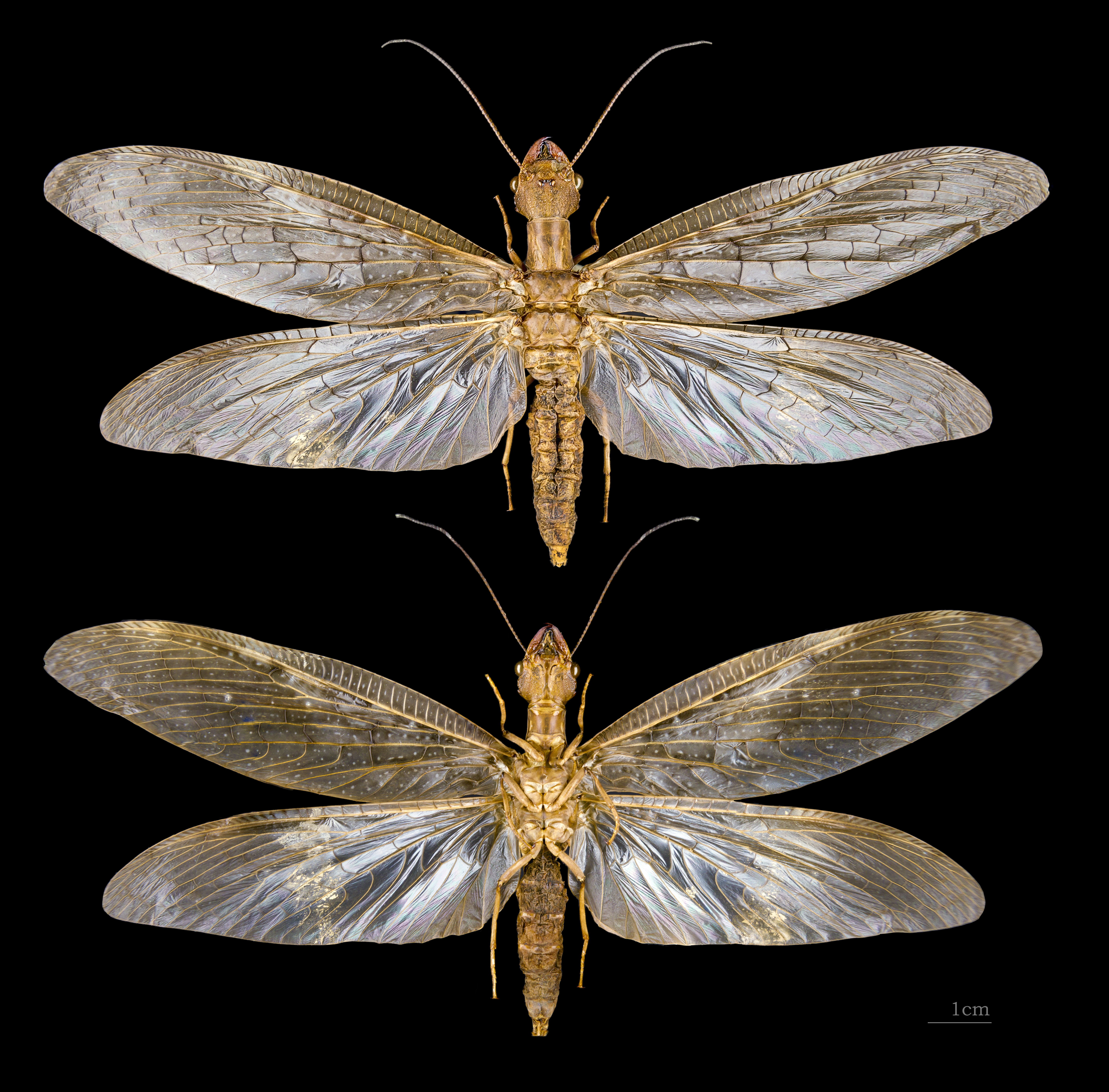 Eastern Dobsonfly - Two views of same specimen